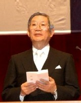 Makoto Iokibe, President of the National Defense Academy, addressed the Graduation Ceremony at the National Defense Academy in Yokosuka City, Kanagawa Prefecture on March 18, 2007.